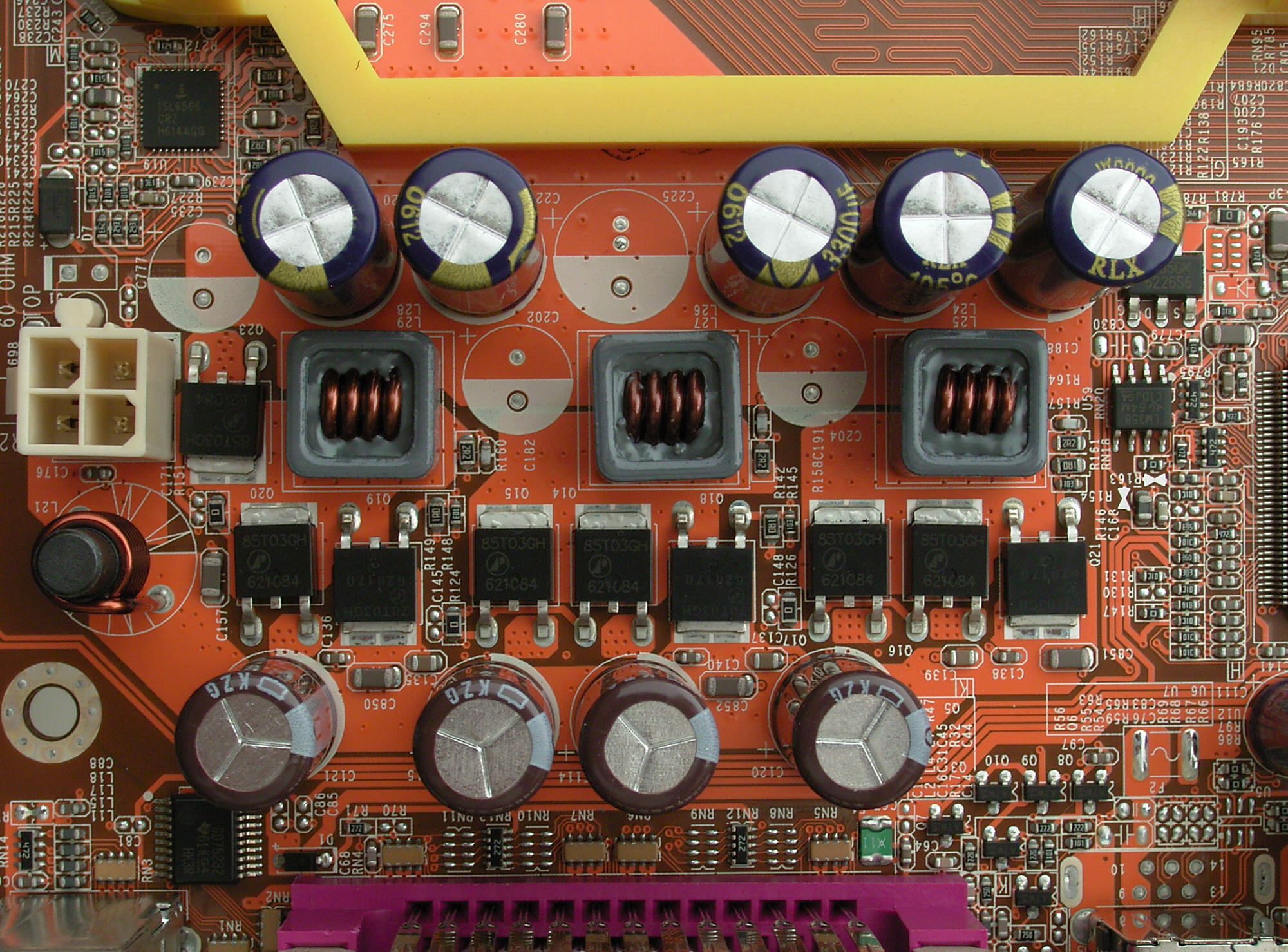 Power part of a switch-mode power supply on a modern PC motherboard with multi-phase control.